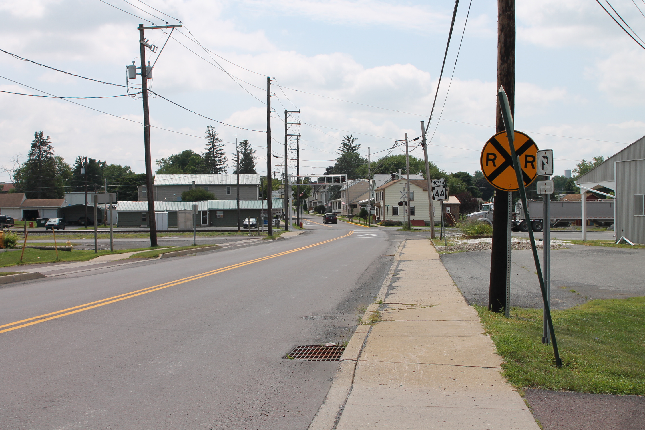 Pennsylvania Route 44 north in Turbotville, Northumberland County